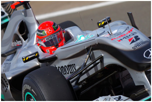 Nico Rosberg had a good race for Mercedes, finishing third. Photographer: Adrian Hoskins.